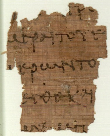 Papyrus 111